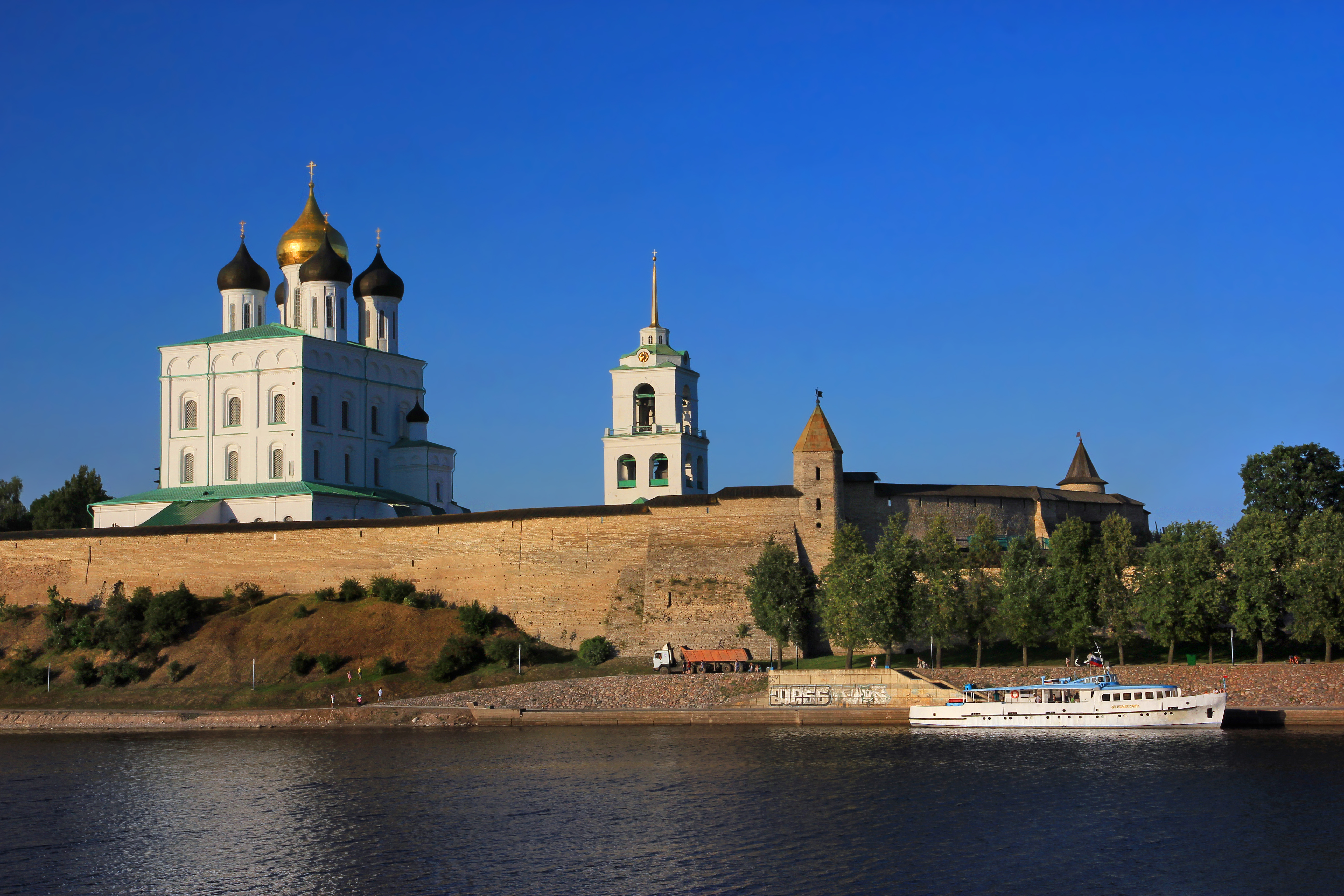 View of the Pskov Kremlin from the Velikaya River, with the year 2014